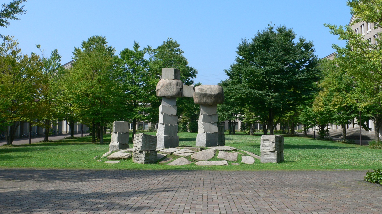 Tokyo_Metropolitan_University (Plaza)